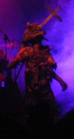 A detail of this image, originally uploaded to flickr here and released under the CC-BY-SA-2.0 license.